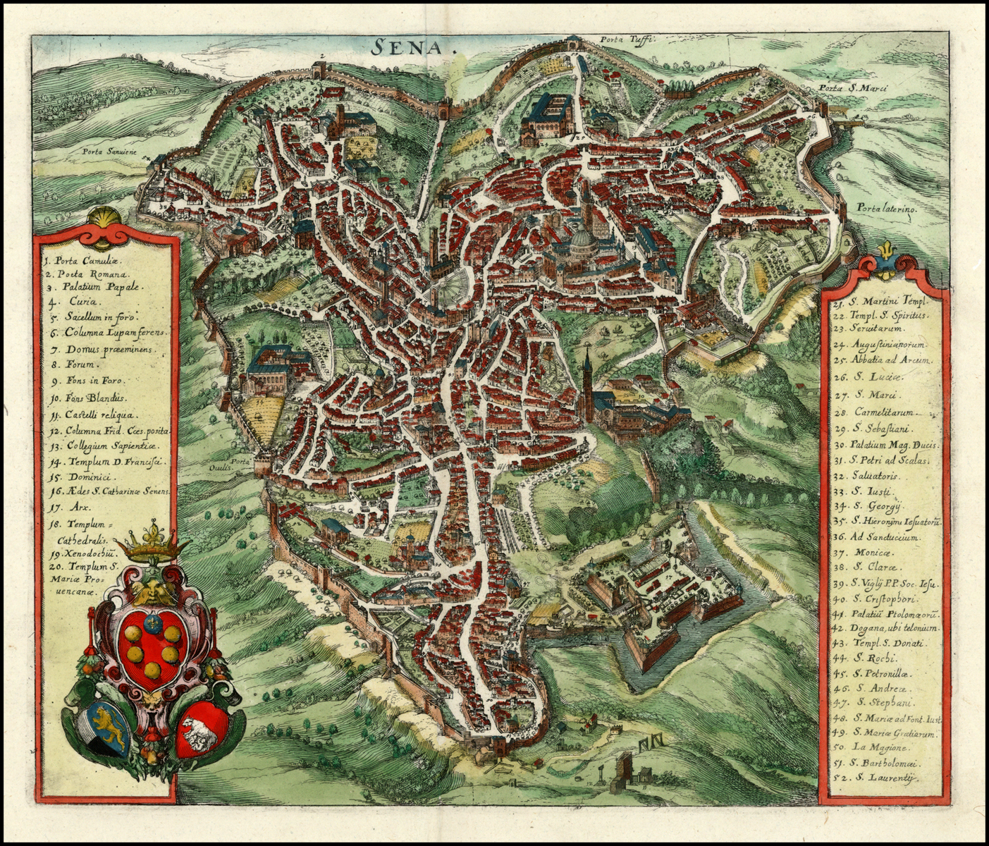 Map of Sena (Siena).